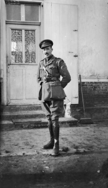 Portrait of Lieutenant Colonel Henry Goddard, commanding officer of the 35th Battalion AIF in April 1918